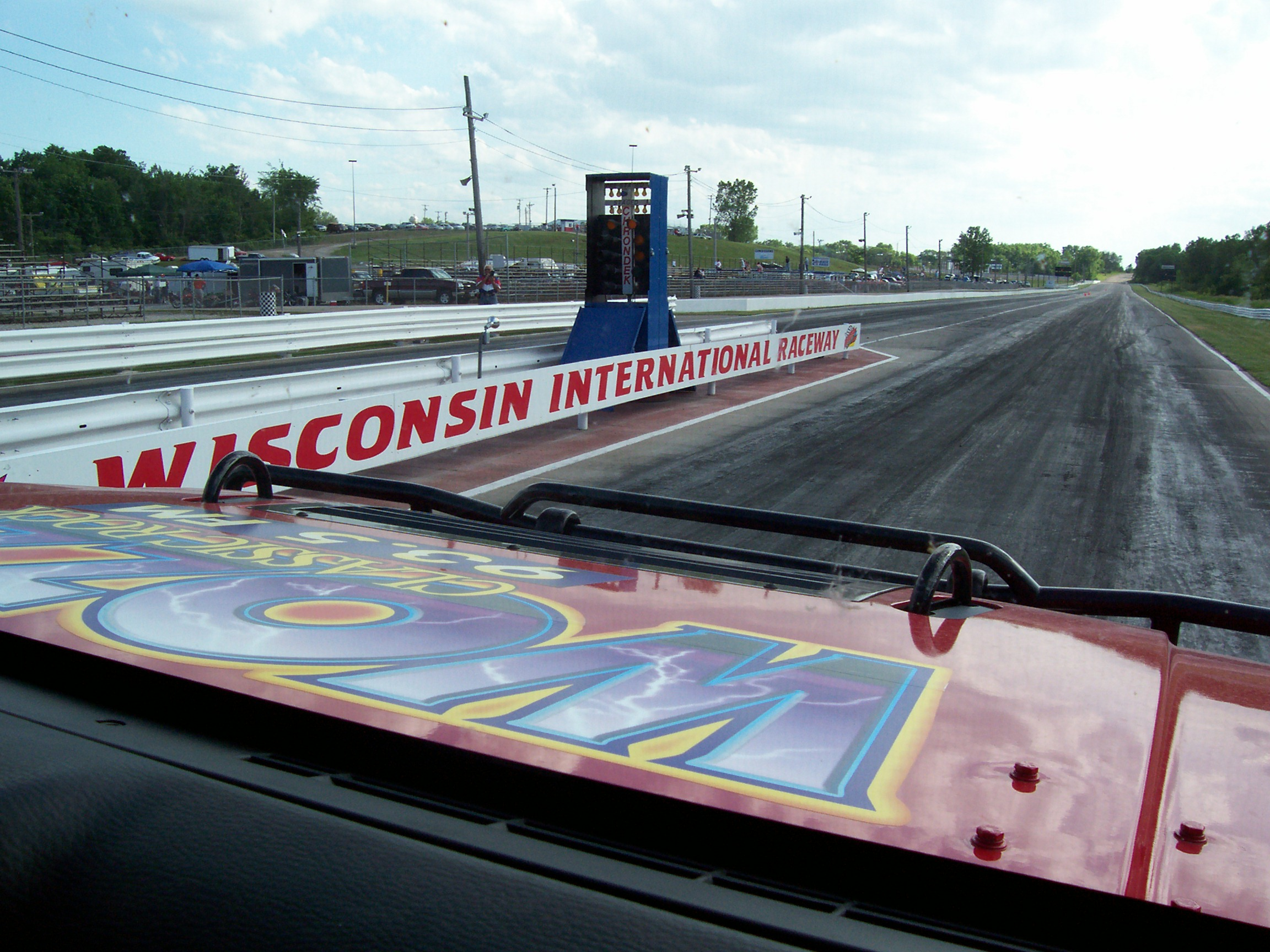 Looking down the drag strip at Wisconsin International Raceway, taken June 19 en:2006, taken by myself.